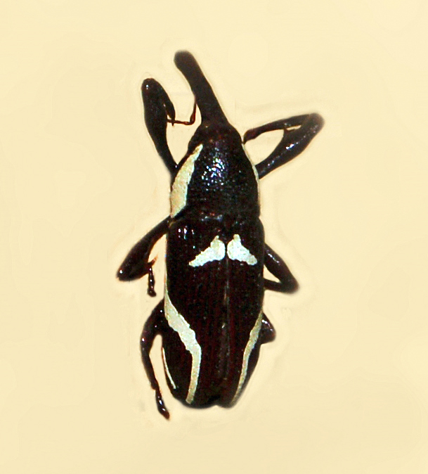 Alcides elegans from Papua New Guinea